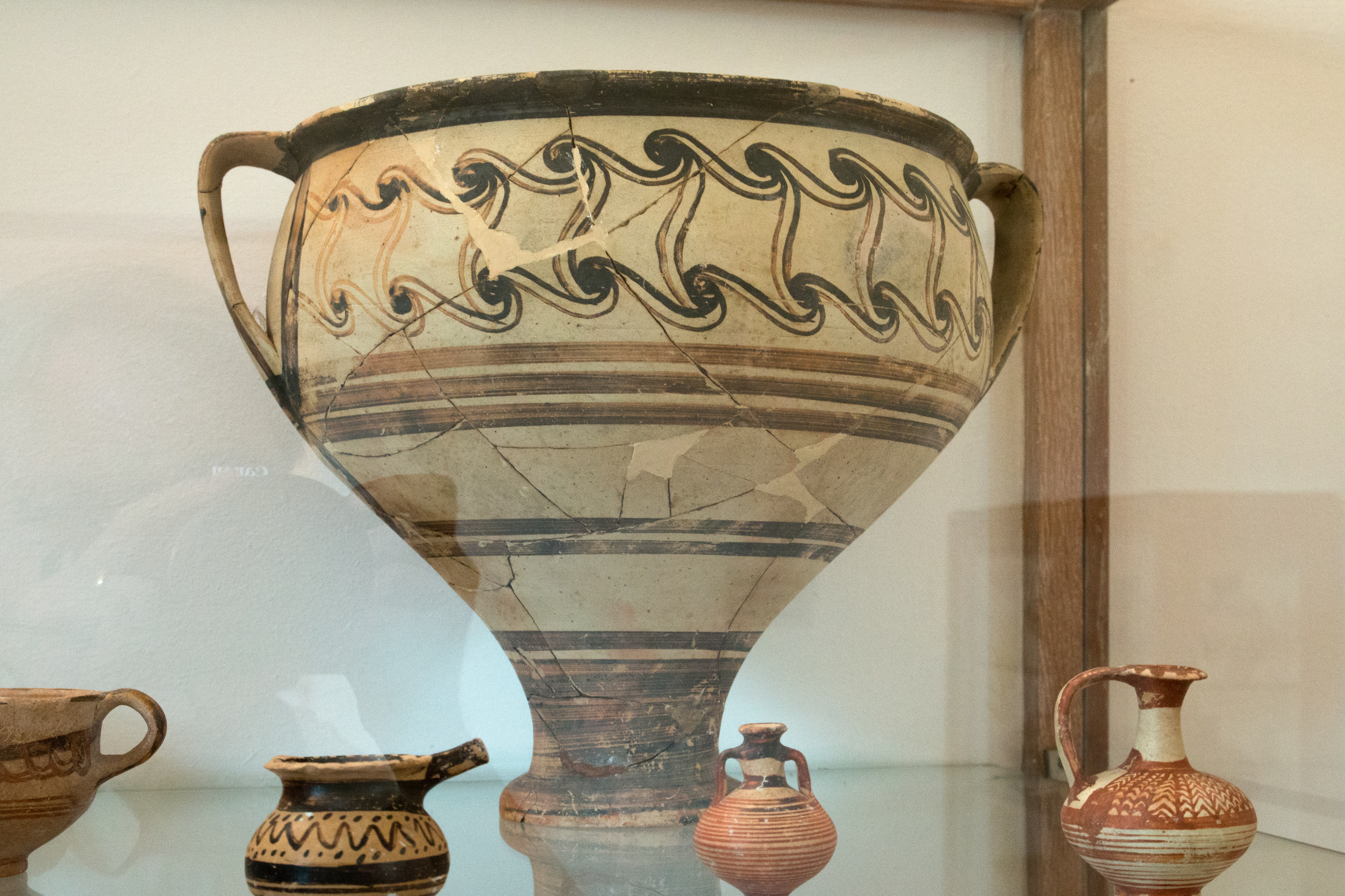 Mycenaean pottery from tombs, from various places of the island (Perdika, Kylindra, Paspara). Archaeological Museum of Aegina.